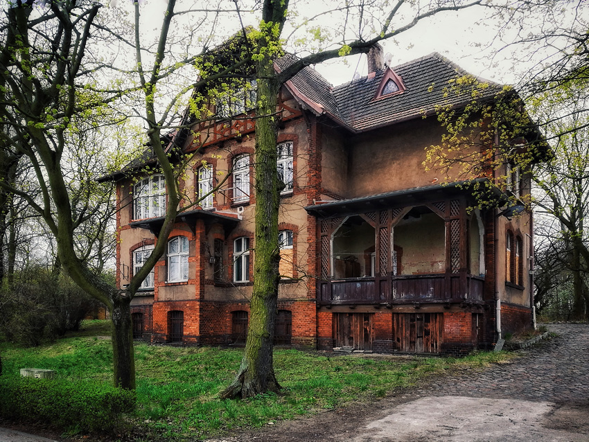 Willa XIX wieczna na terenie Parku Tysiąclecia w Toruniu